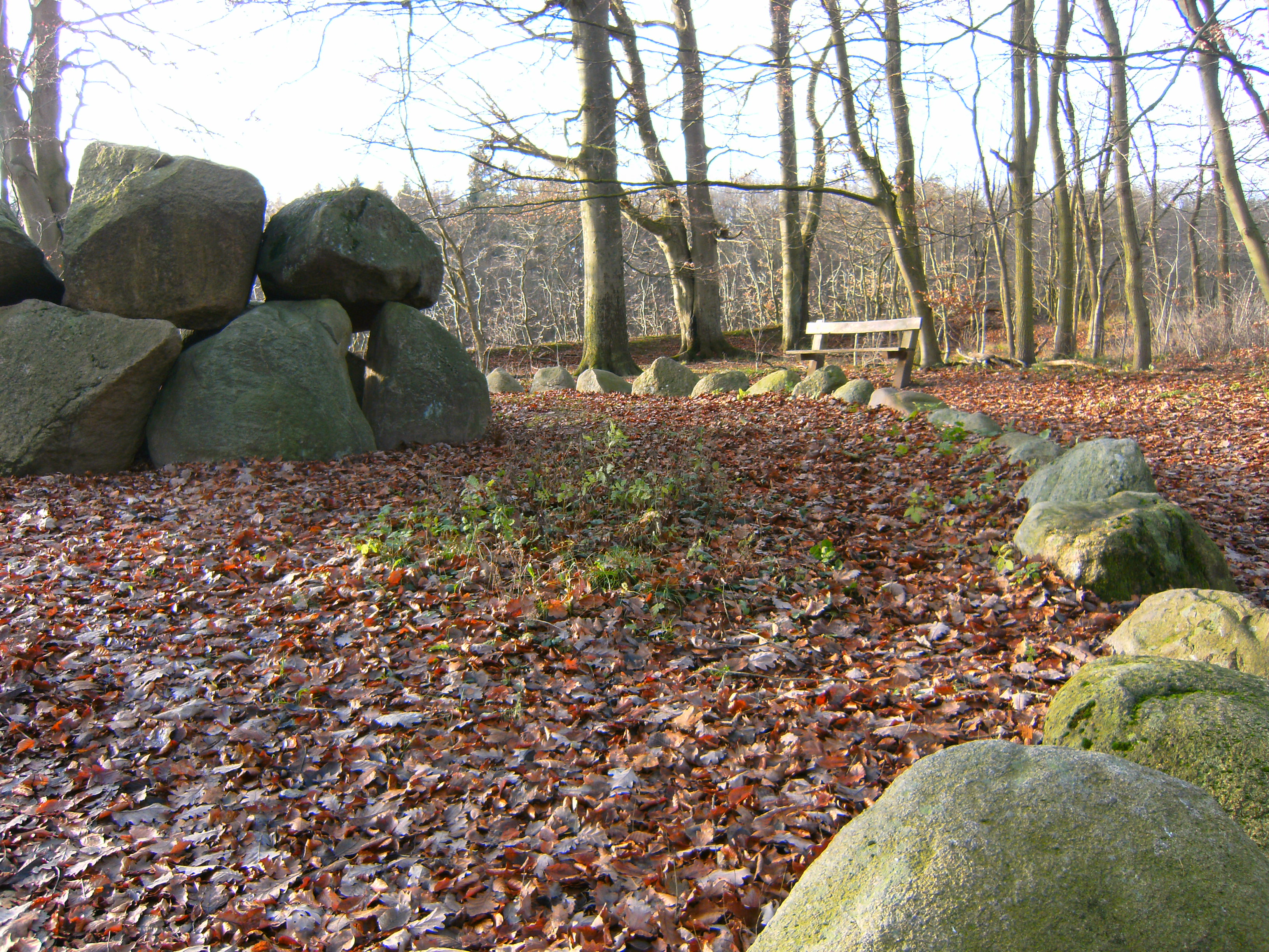 Megalithic burial place southwest of Pöppendorf (Pöppendorfer Großsteingrab) near Lübeck, Germany. With surrounding circle of Stones.